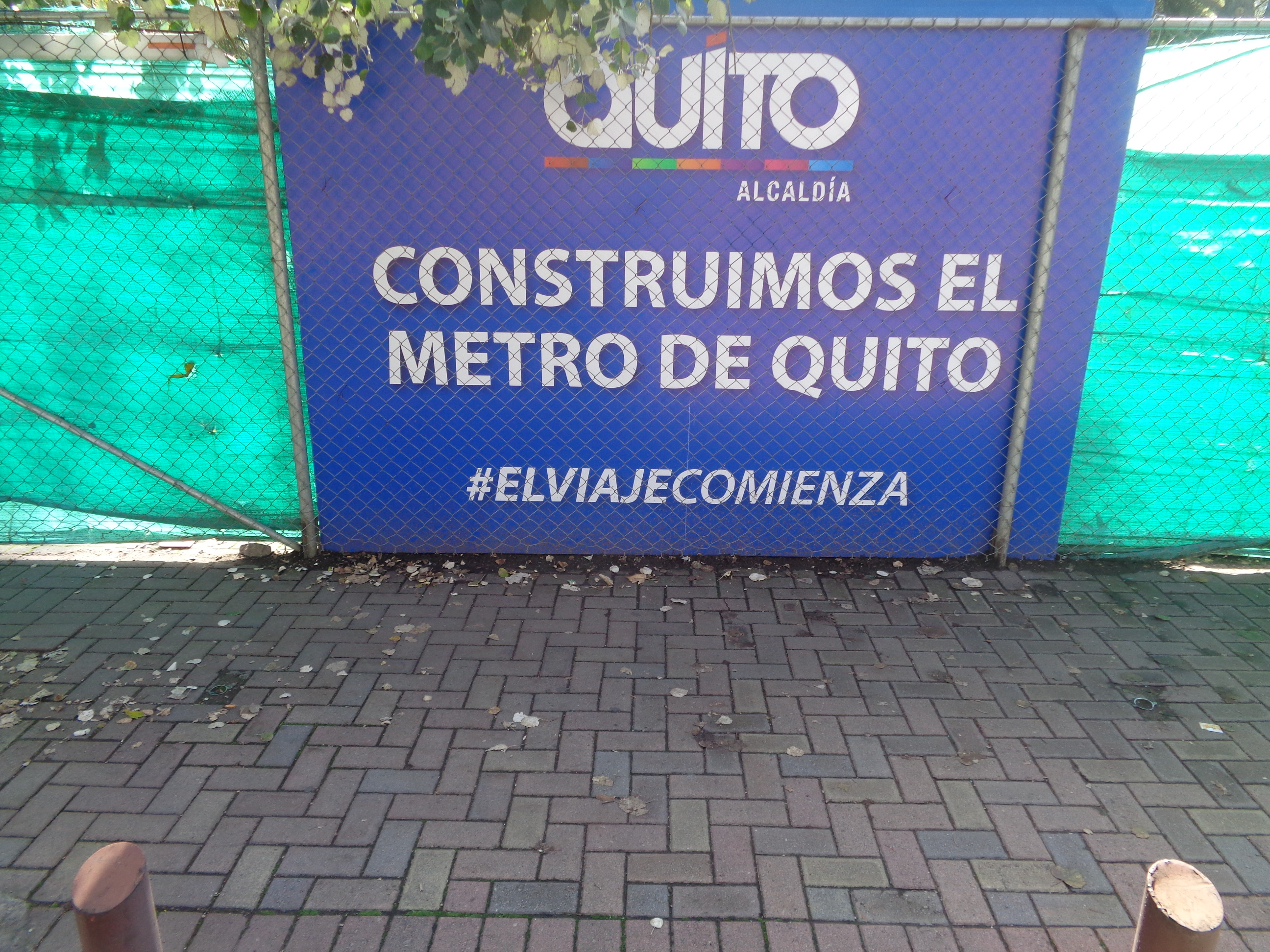 Construction, Metro de Quito, Parque La Carolina, Ecuador located in the Andes Mountains Quito Ecuador Photo by, David Adam Kess